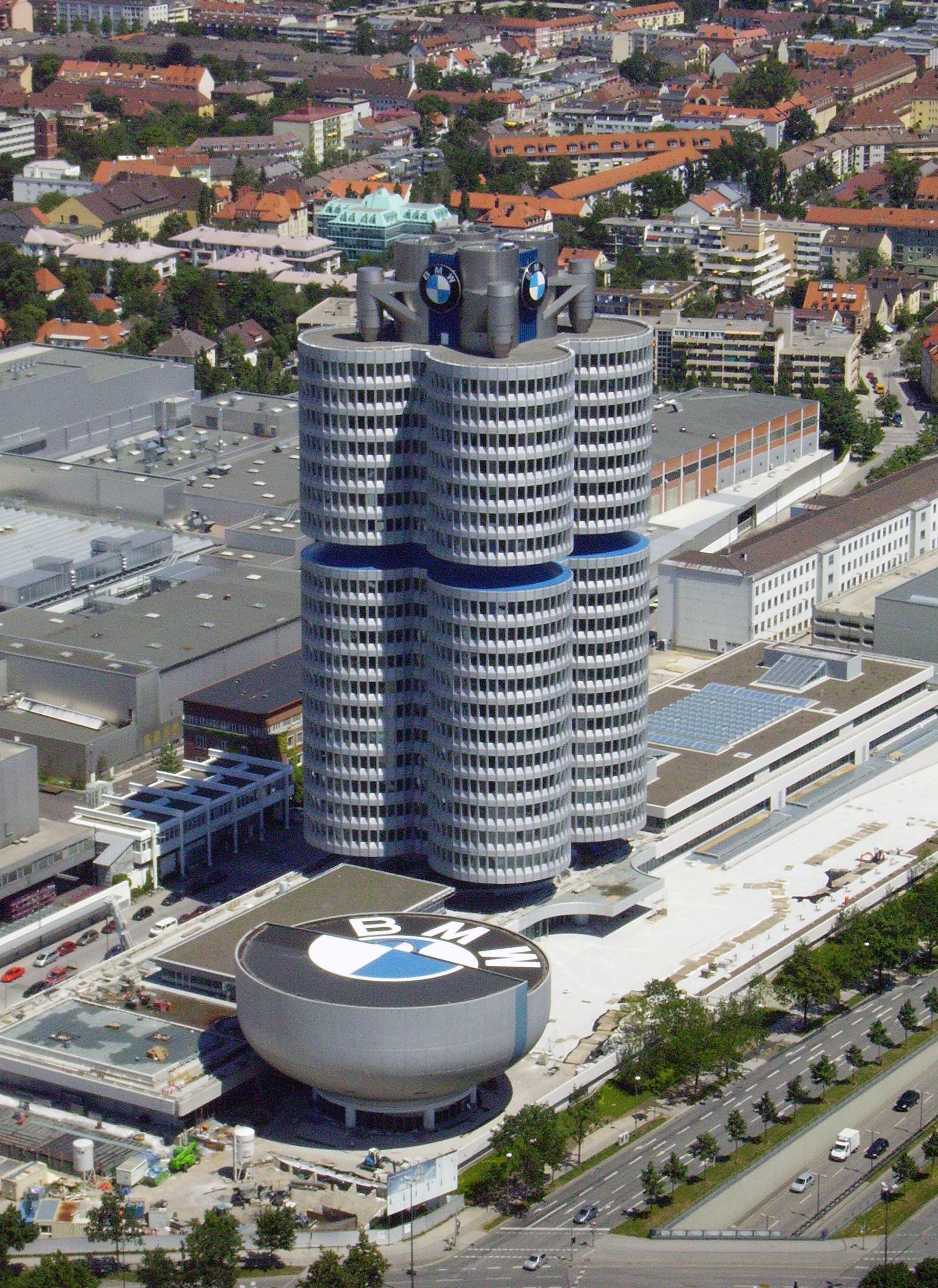 BMW-Building in Munich